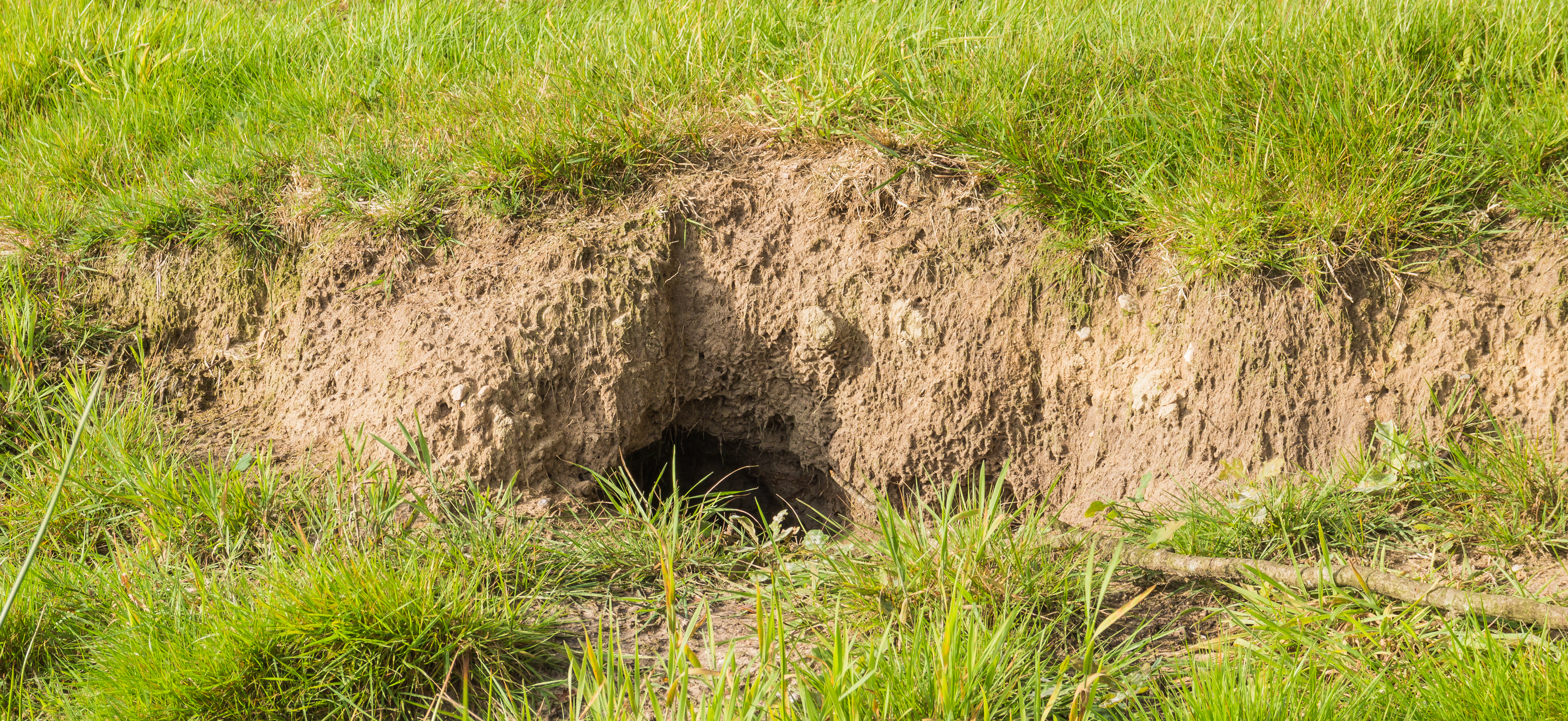 Rabbithole. Location, Het Katlijker Schar.